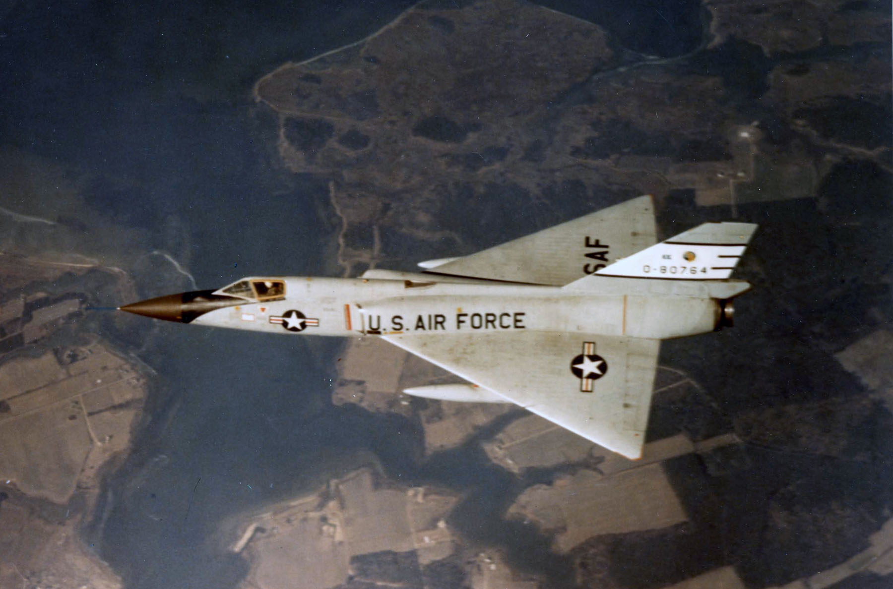 A Convair F-106A from rear right.